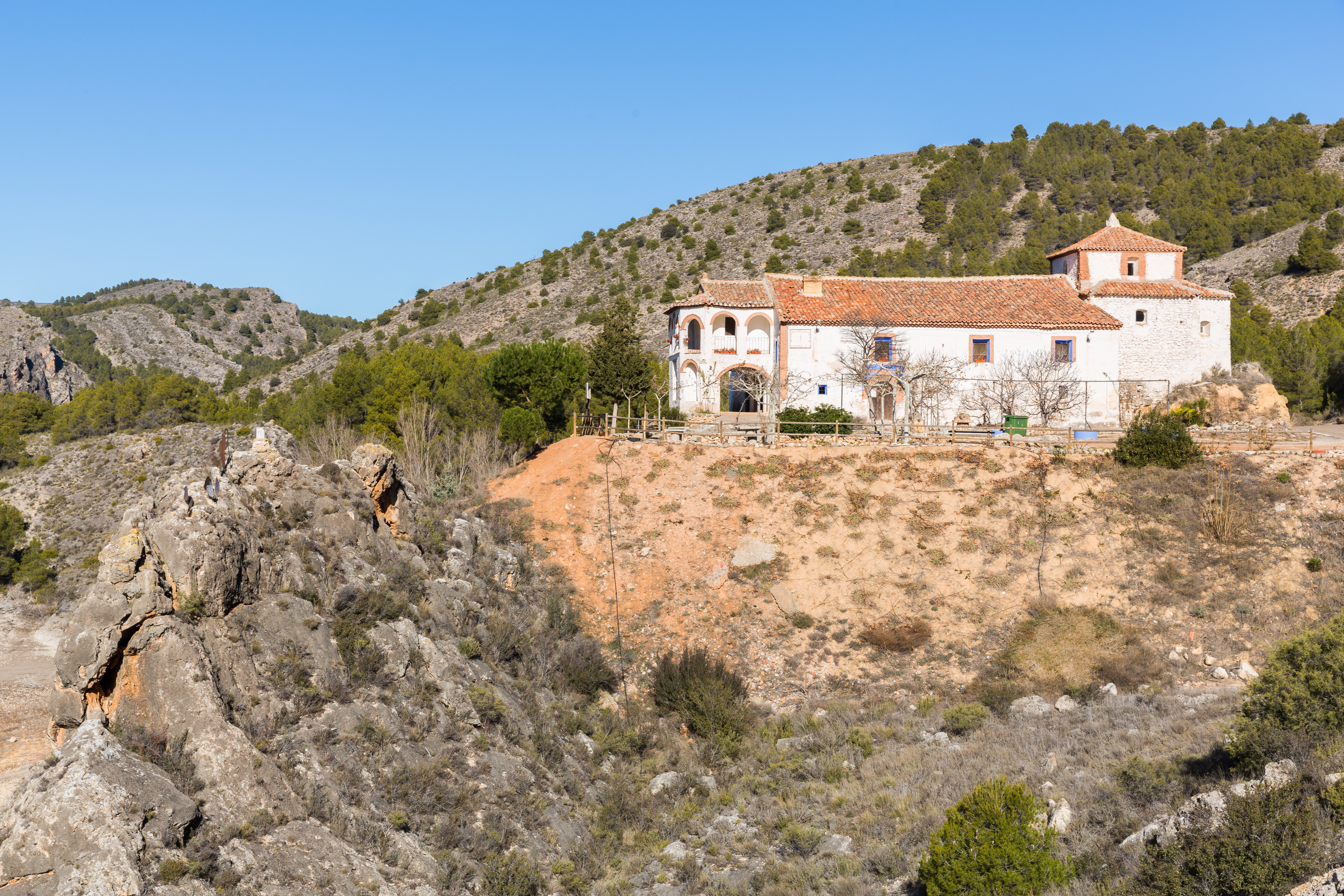 Hermitage of St Daniel, Ibdes, Zaragoza, Spain